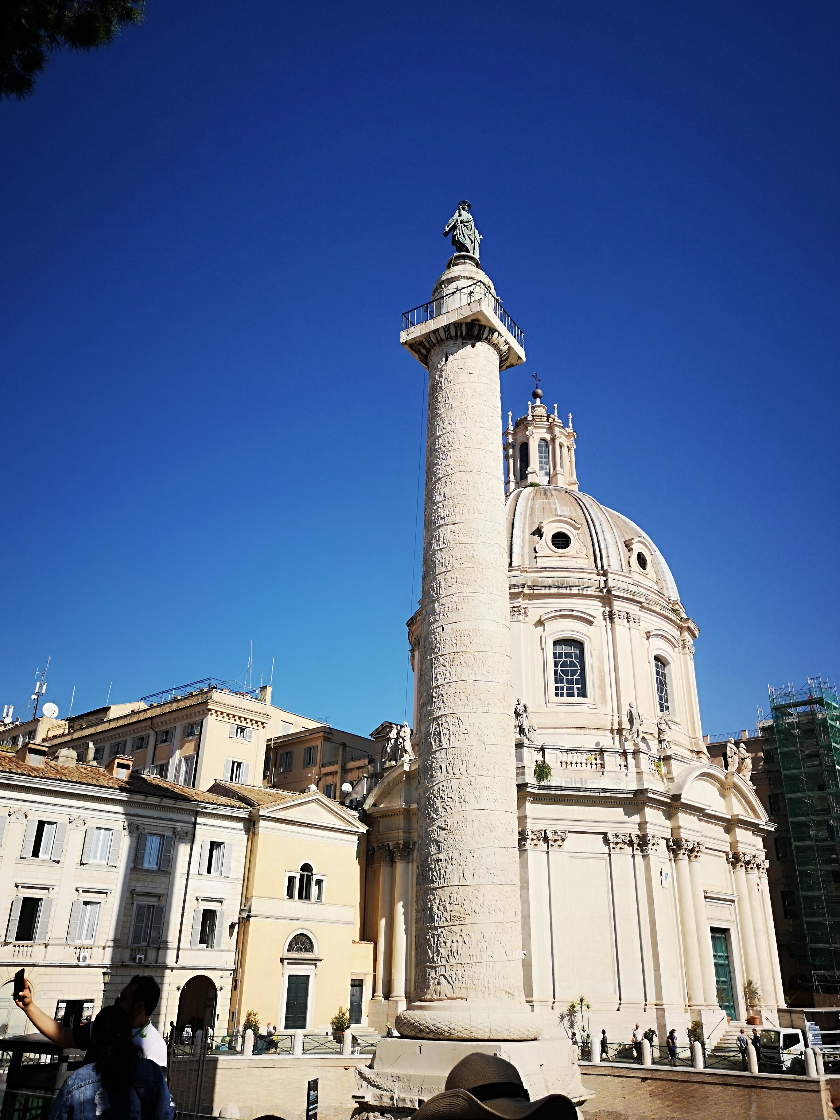 Trajan's Column and Basilica Ulpia in Rome, Italy.